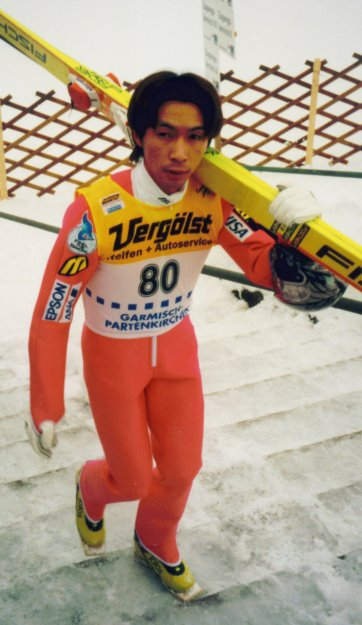 Hideharu Miyahira during the qualification for the FIS World Cup in Garmisch-Partenkirchen